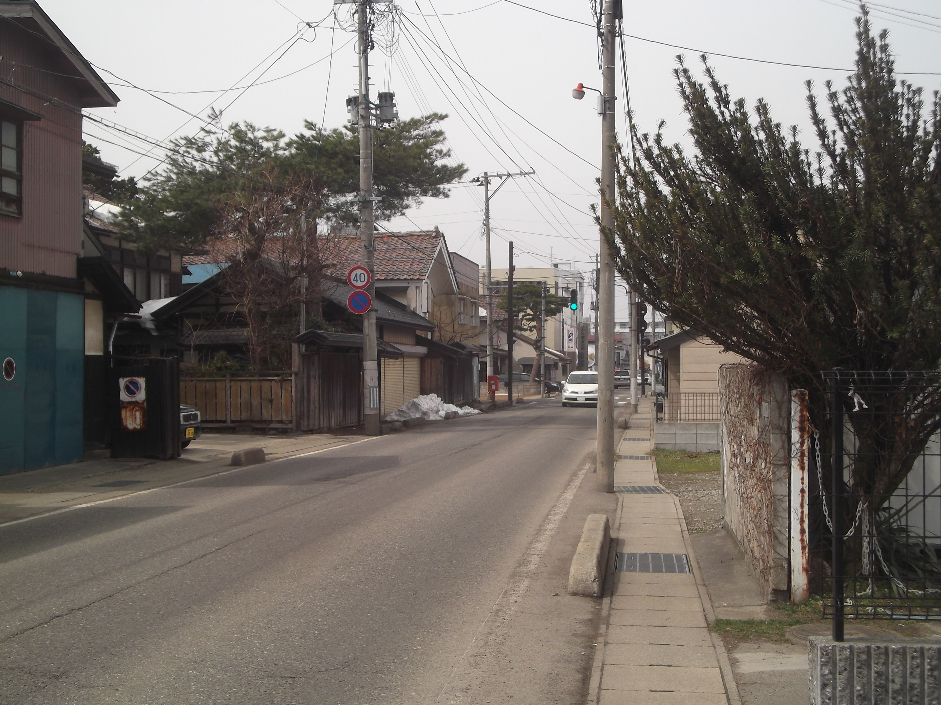 Landscape of Amidamachi, Aizuwakamatsu, Fukushima.